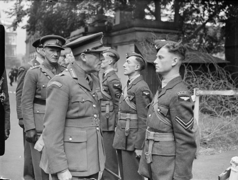 The Royal Air Force Regiment, 1942-1945. Major General C F Liardet, Commander in Chief of the RAF Regiment, inspecting a contingent of the Regiment in London.